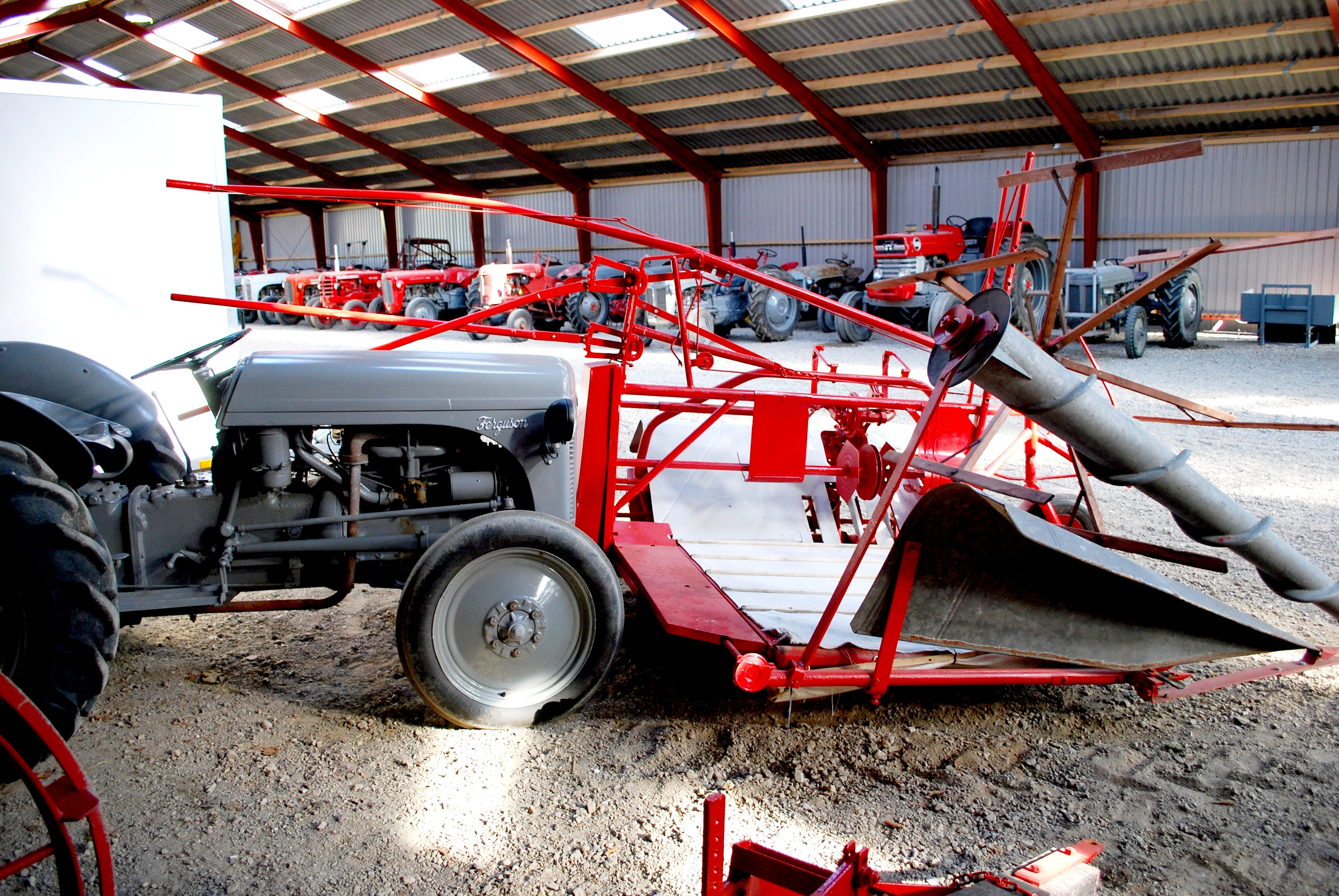 JF reaper-binder mount on a Ferguson tractor